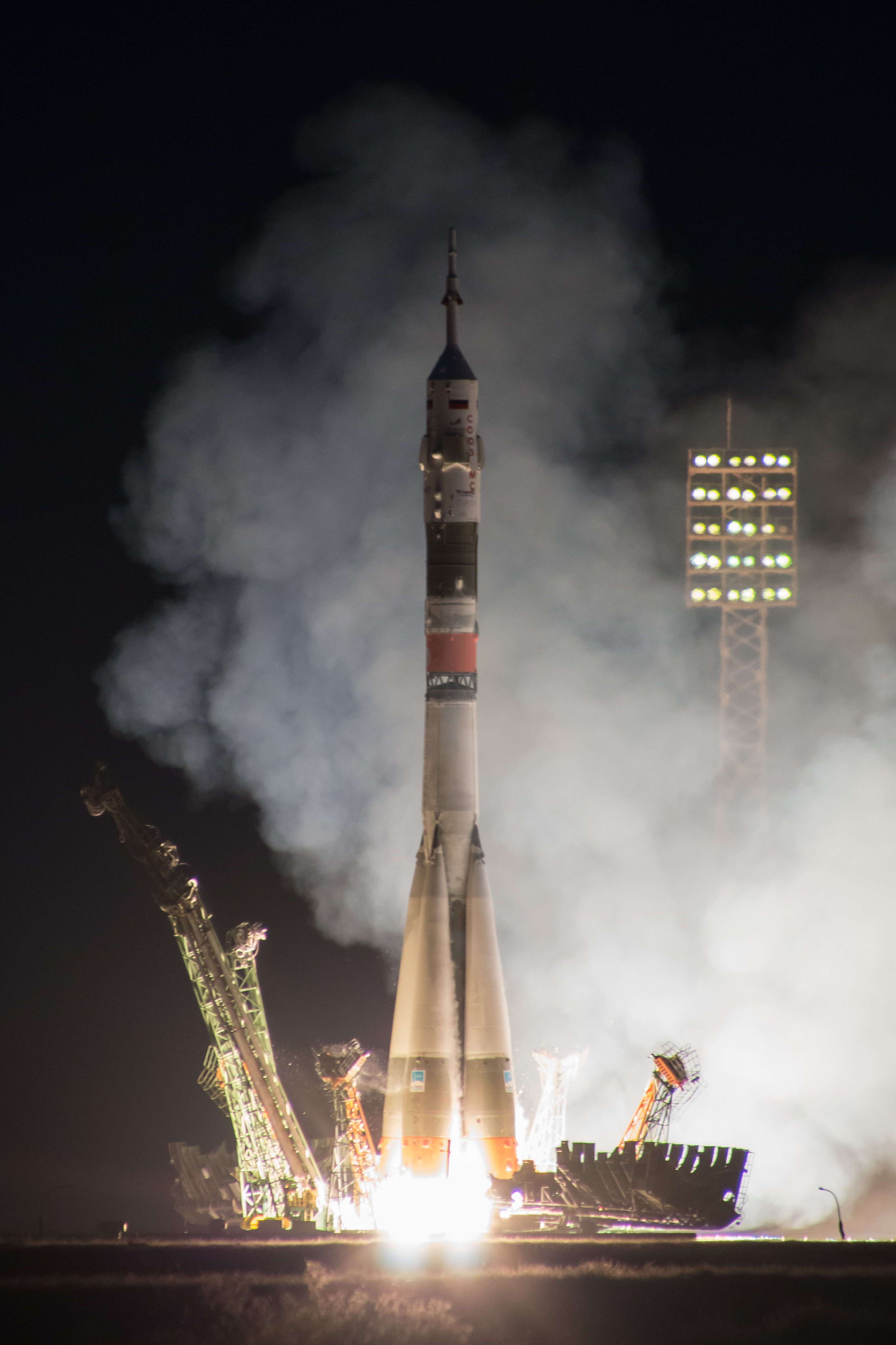 The Soyuz MS-15 spacecraft is launched with Expedition 61 crewmembers Jessica Meir of NASA and Oleg Skripochka of Roscosmos, and spaceflight participant Hazzaa Ali Almansoori of the United Arab Emirates, Wednesday, Sept. 25, 2019 from the Baikonur Cosmodrome in Kazakhstan.